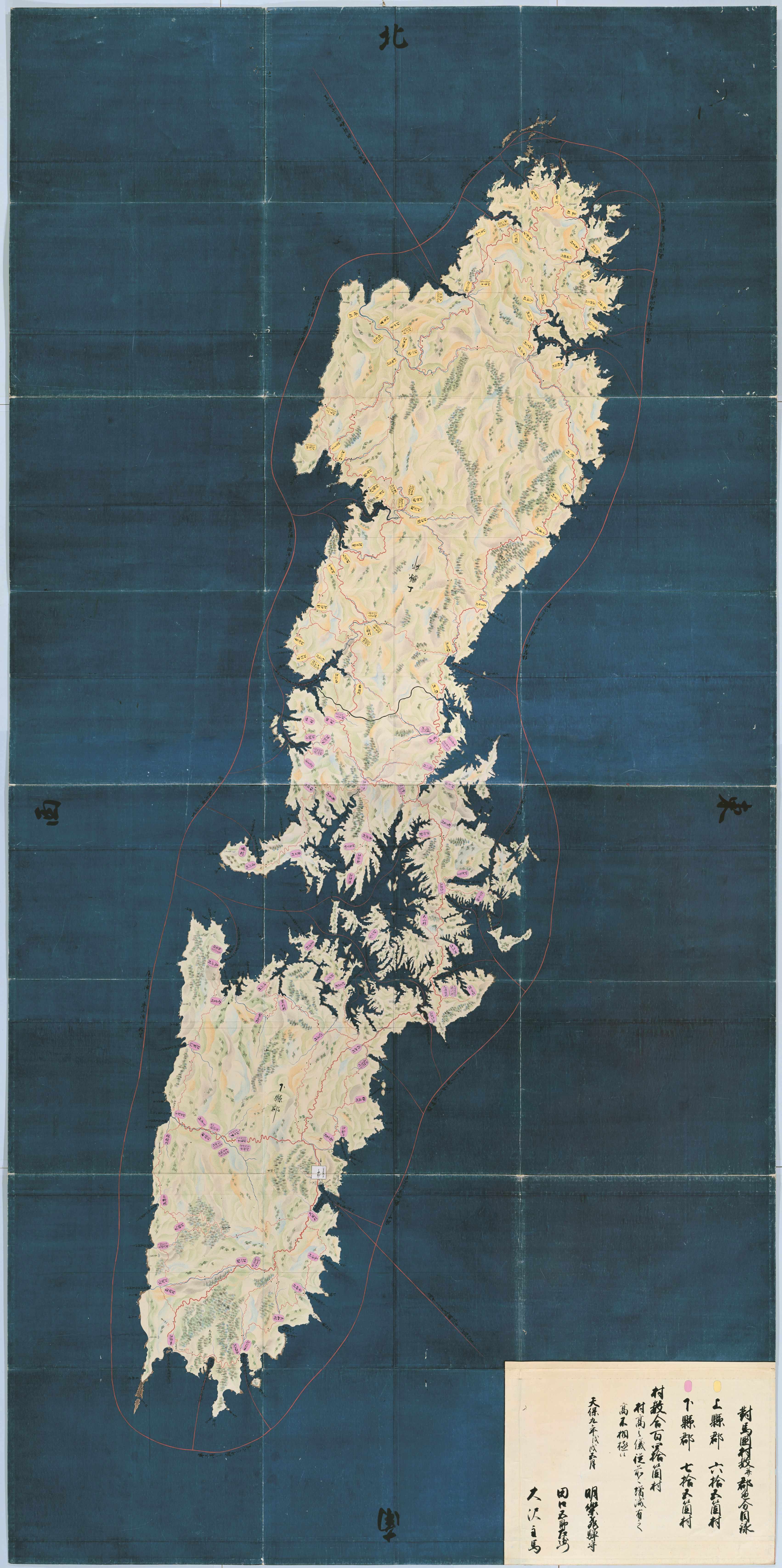 Tenpō Kuniezu - Tsushima Province, National Archives of Japan; original map; 170cm x 346cm; Important Cultural Property